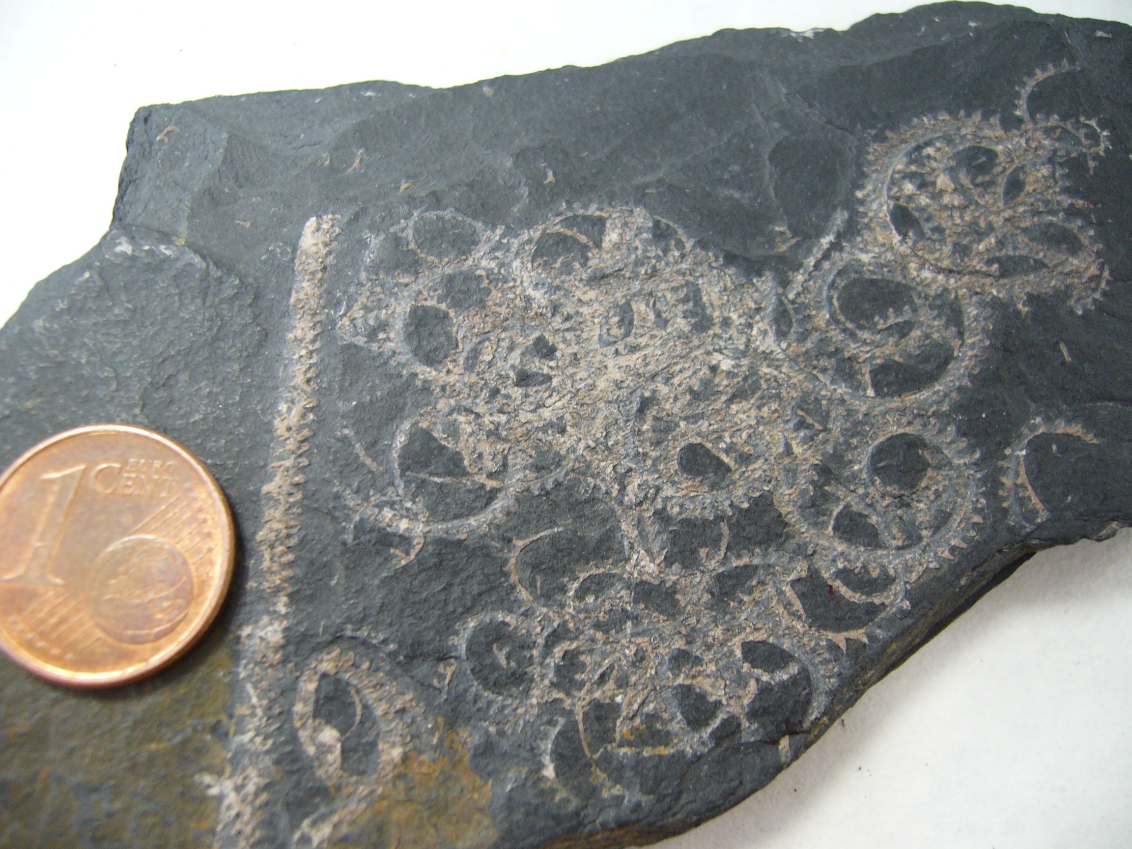 Spirograptus spiralis fossil (Silurian) founded in Guadalajara, in a laboratory of practices of the Faculty of Sciences of the University of Corunna.